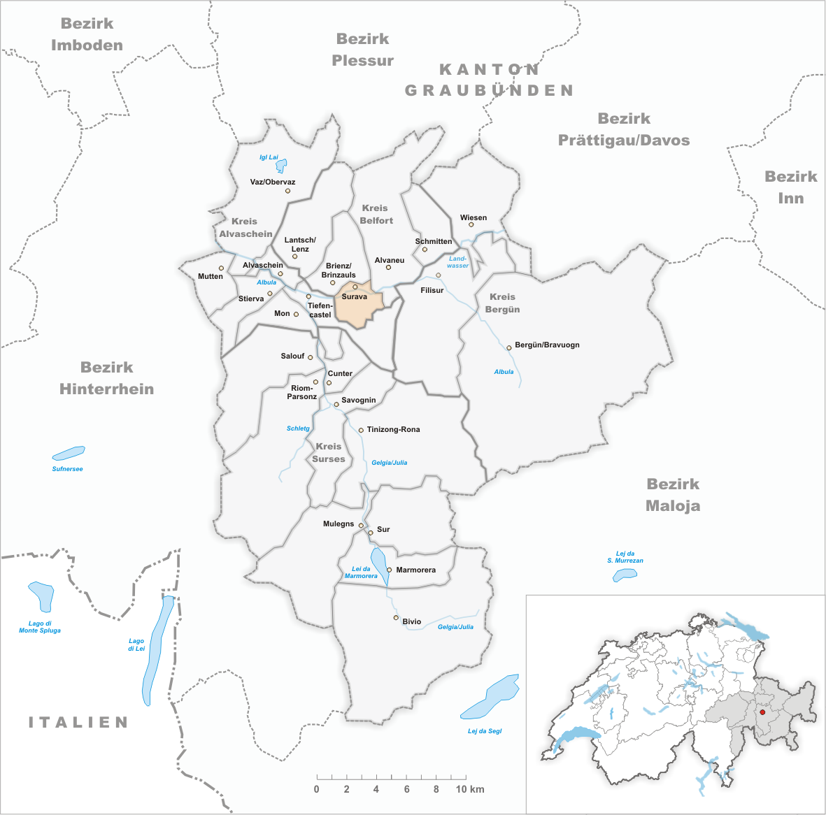 Municipality Surava